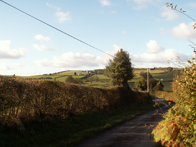 Looking towards Tyle Mawr. Country road north of Glasbury